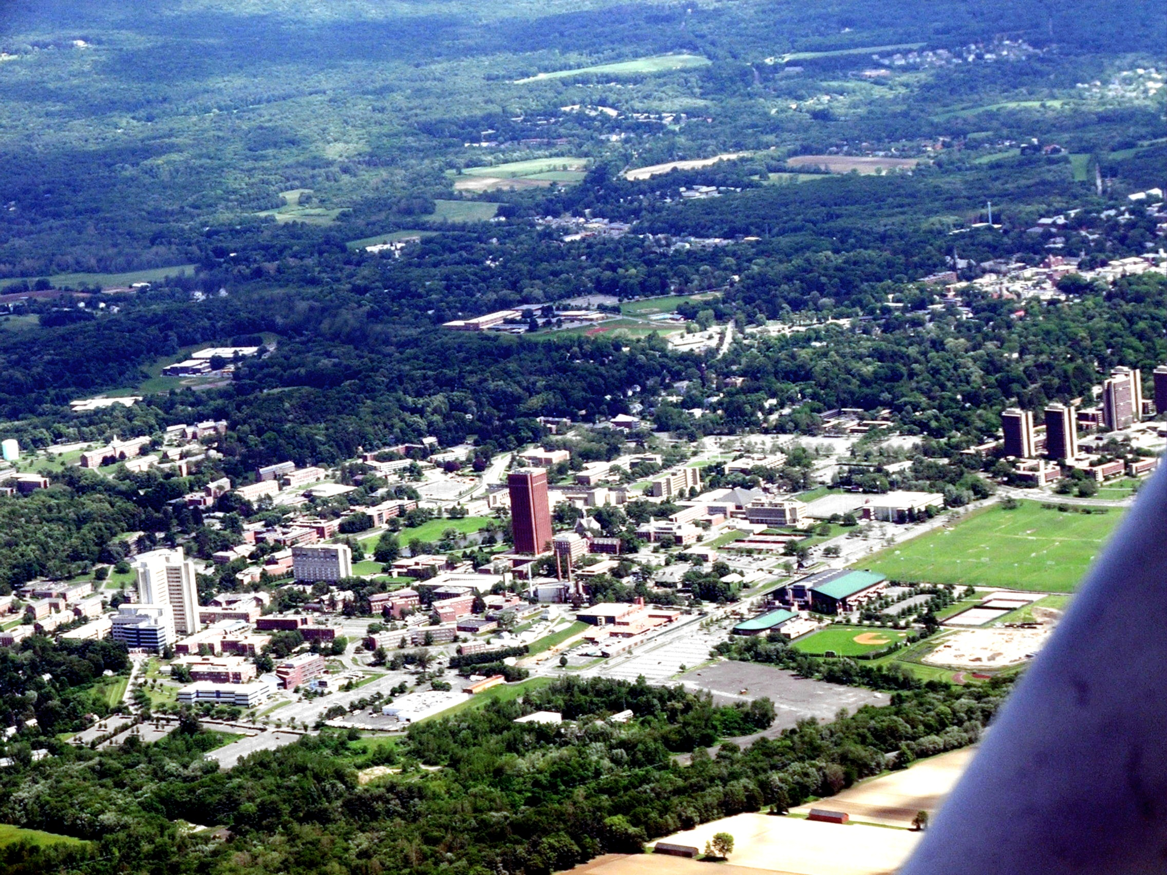 Description: Amherst Massachusetts Viewed From The Northwest. Taken from 3500 Feet in A Cessna 150 Airplane. Source: Own Work Date: Created June 11, 2006 With A FujiFilm S5100 Digital Camera. Author: N. Wayne Hansen Permission: GFDL (self made) Other versions of this file: Digital Image.